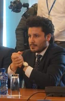 Montenegrin politician Dritan Abazović in Podgorica, Montenegro, 21 February 2019.